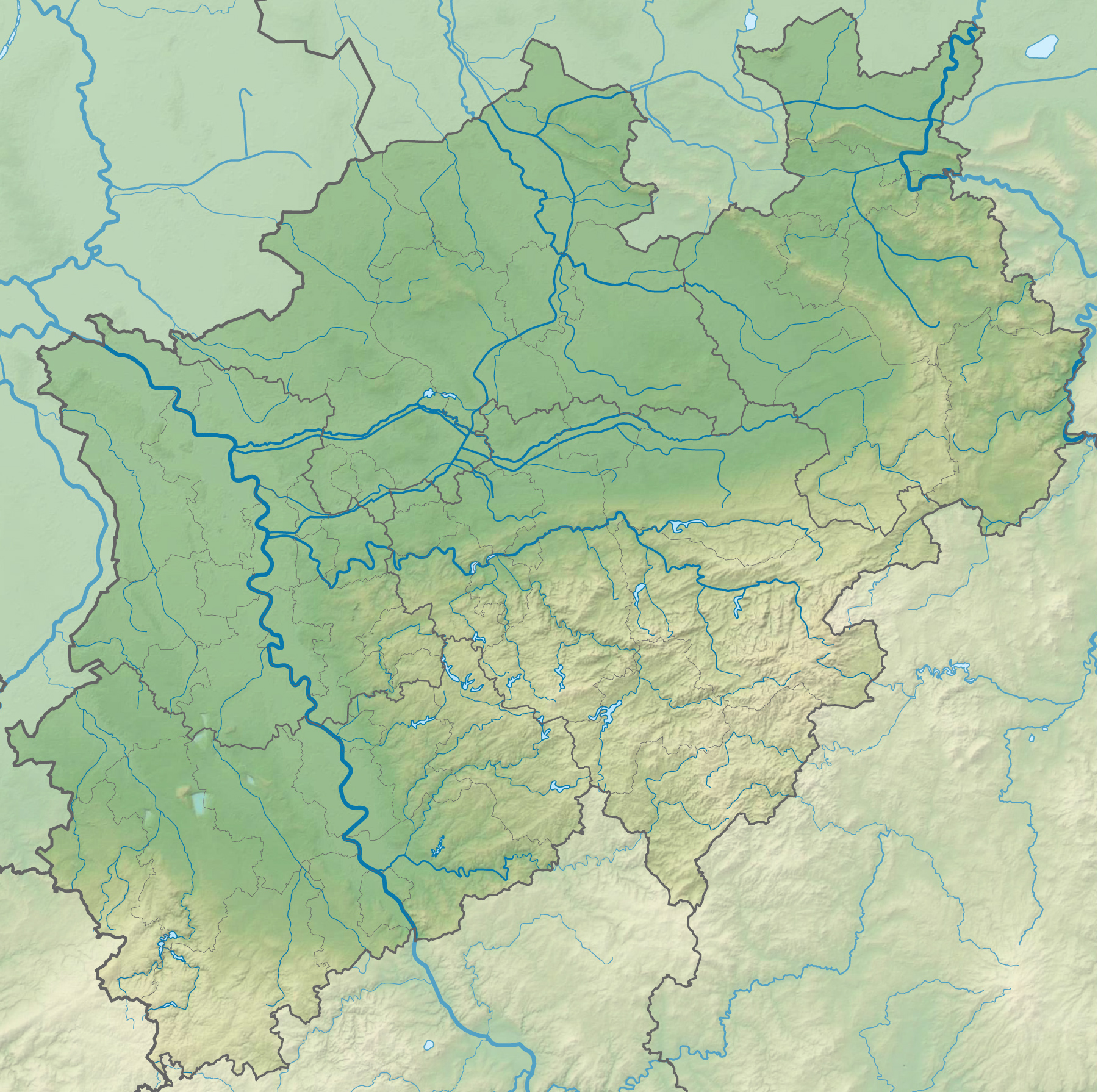 Location map North Rhine-Westphalia, Germany. Geographic limits of the map